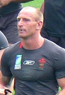 Gareth Thomas, Welsh rugby player